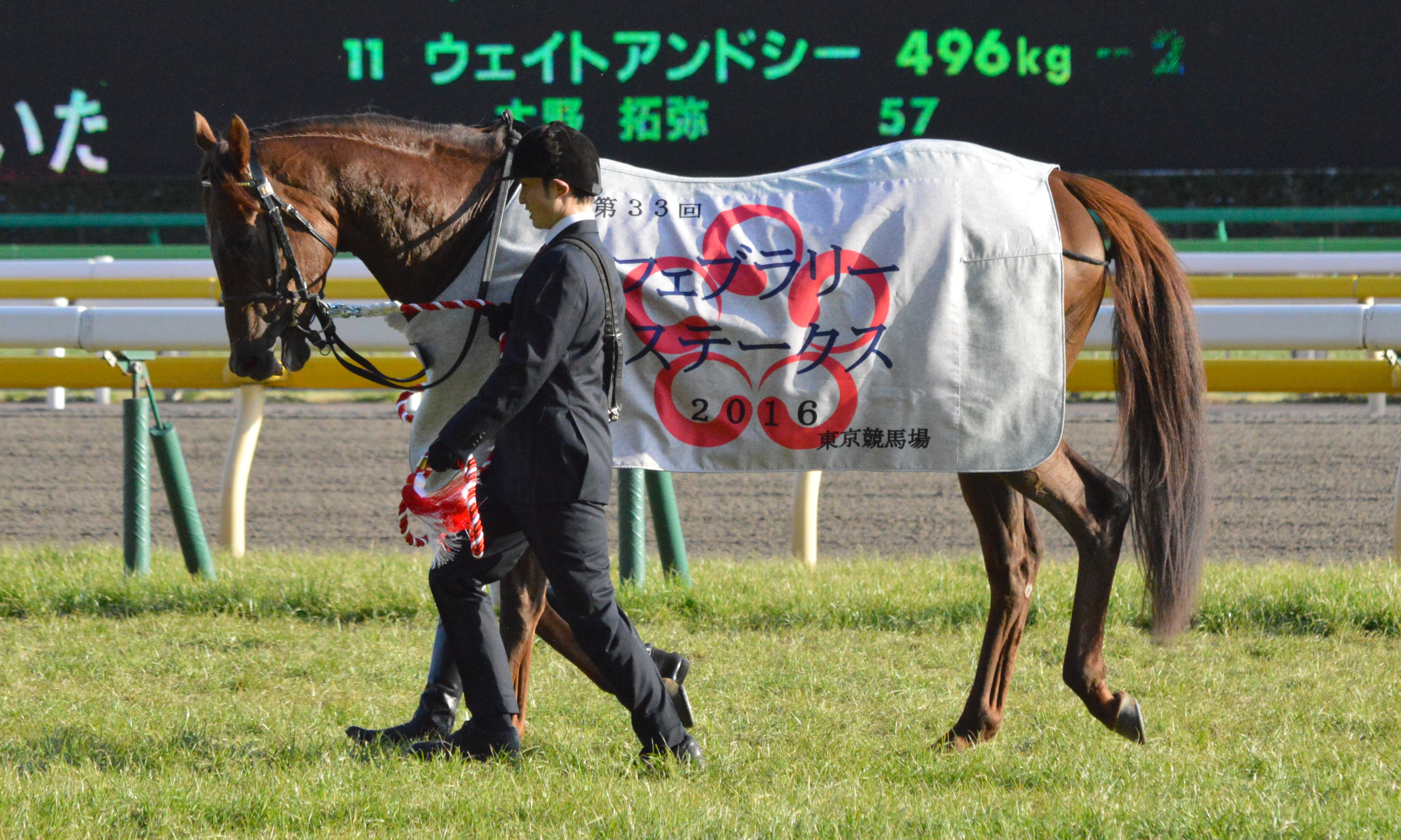 Japanese race horse Moanin at Tokyo racecourse. Tokyo (JPN) 21 Feb 2016 February Stakes (Grade 1) (4yo+) (Dirt) 1m Muddy RankHorse NameOddsAgeWgtTrainerJockey1stMoanin (USA)41/10C49-0Sei IshizakaMirco Demuro2ndNonkono Yume (JPN)7/5FC49-0Yukihiro KatoChristophe-Patrice Lemaire3rdAsukano Roman (JPN)171/10H59-0Yoshihiko KawamuraKeisuke Dazai4th - 16th/omission